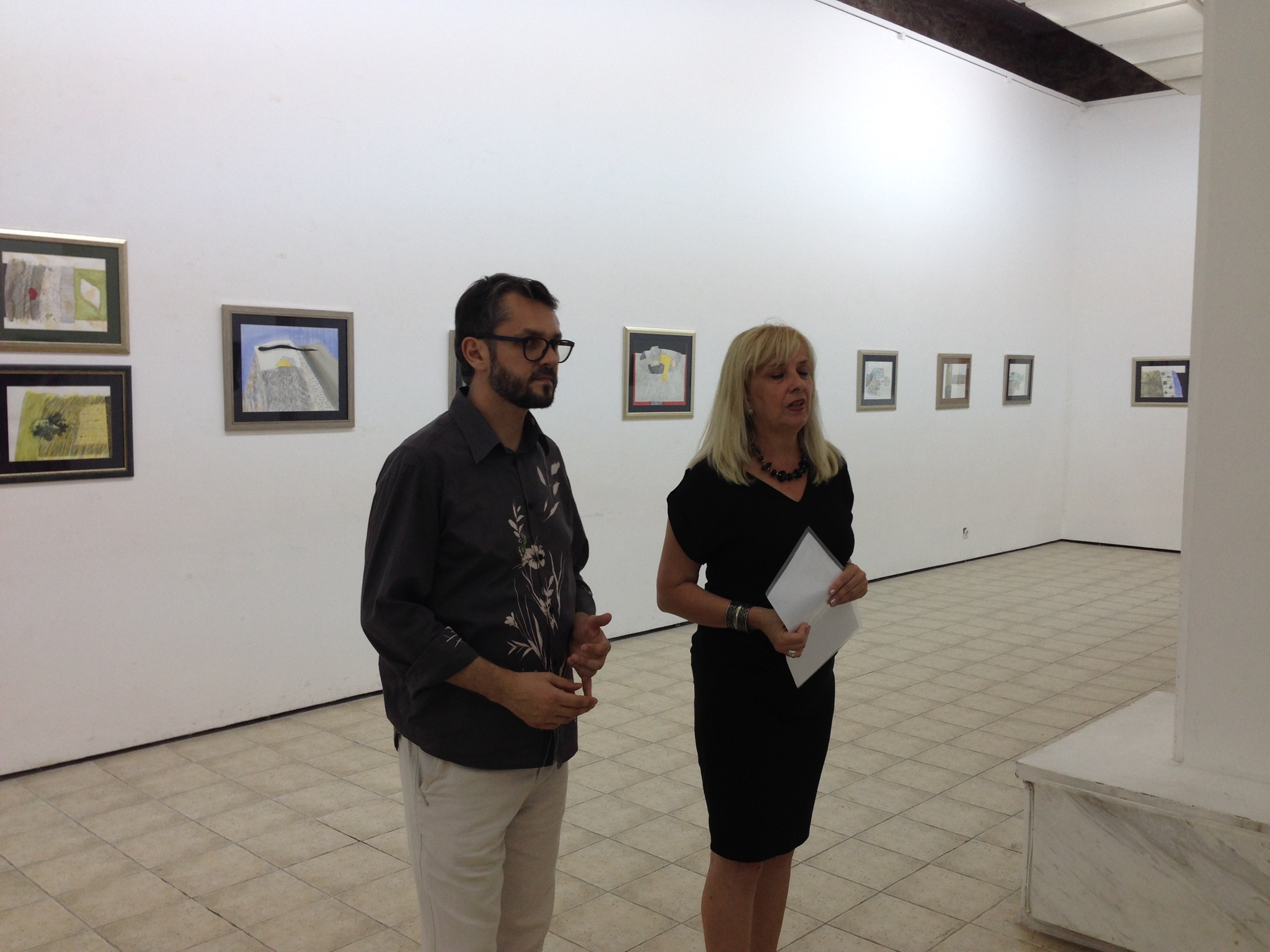 GSLU Niš - Exhibition of drawings Marko Visić, 2016.